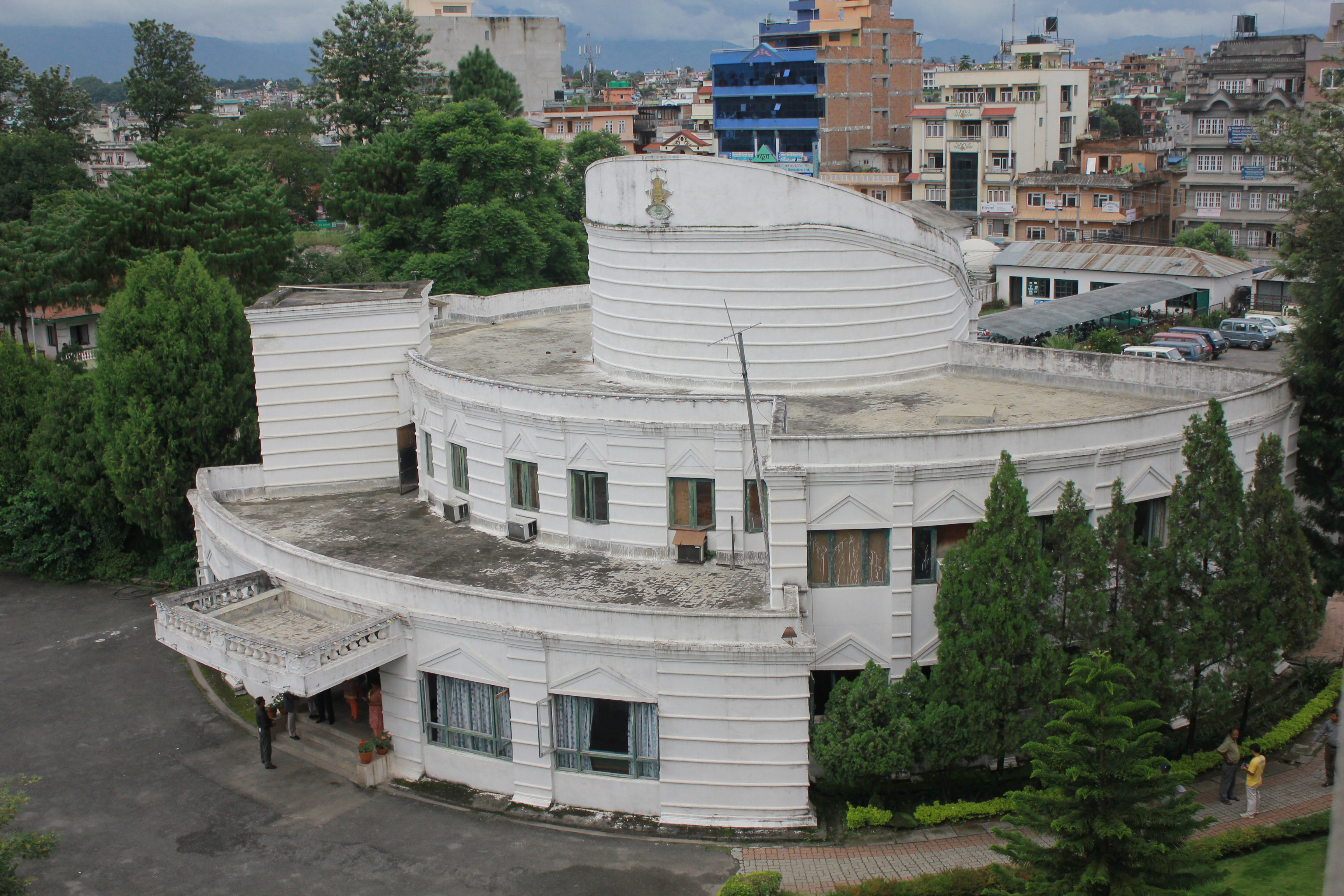 This is the studio building of Nepal Television